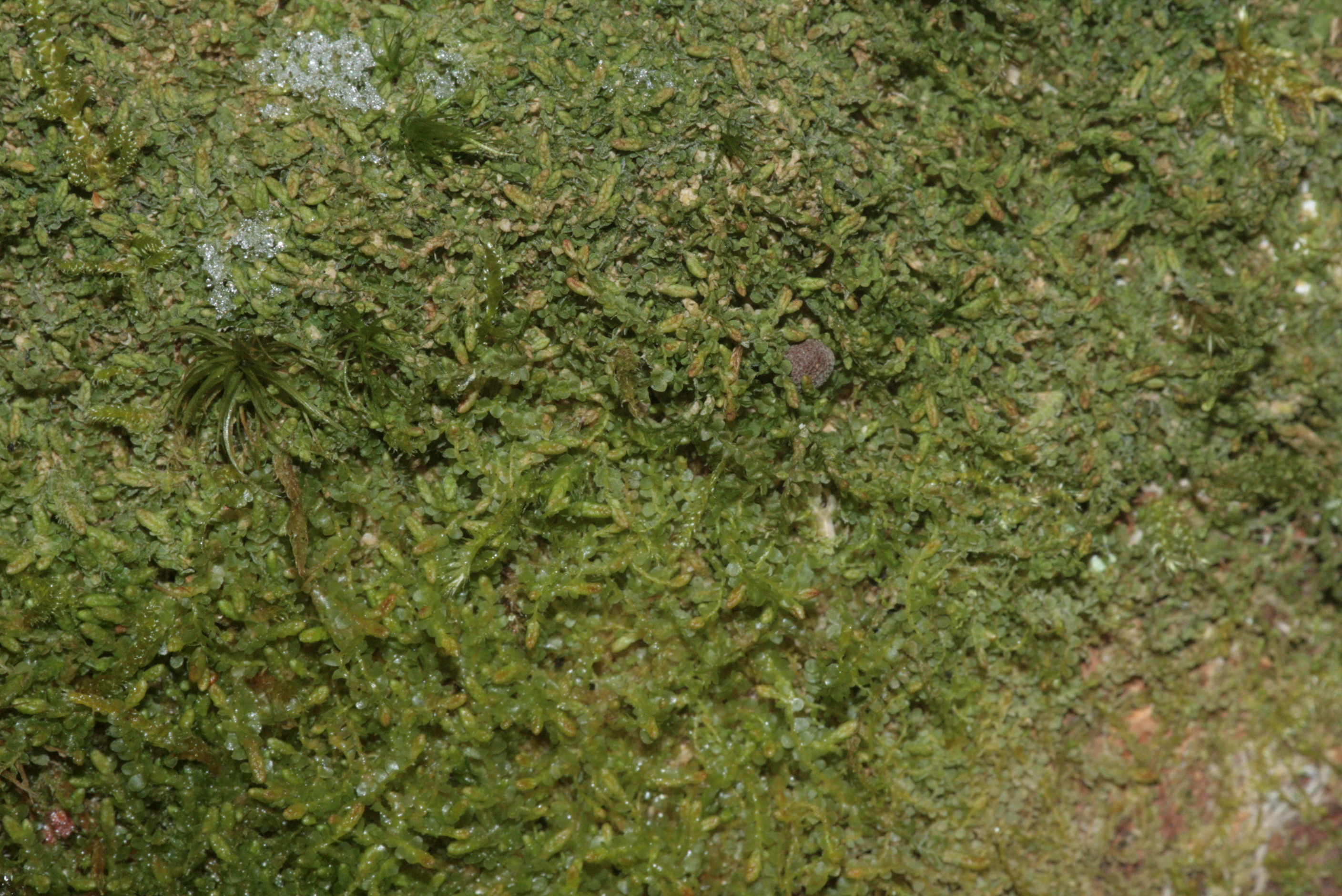 Jamesoniella autumnalis